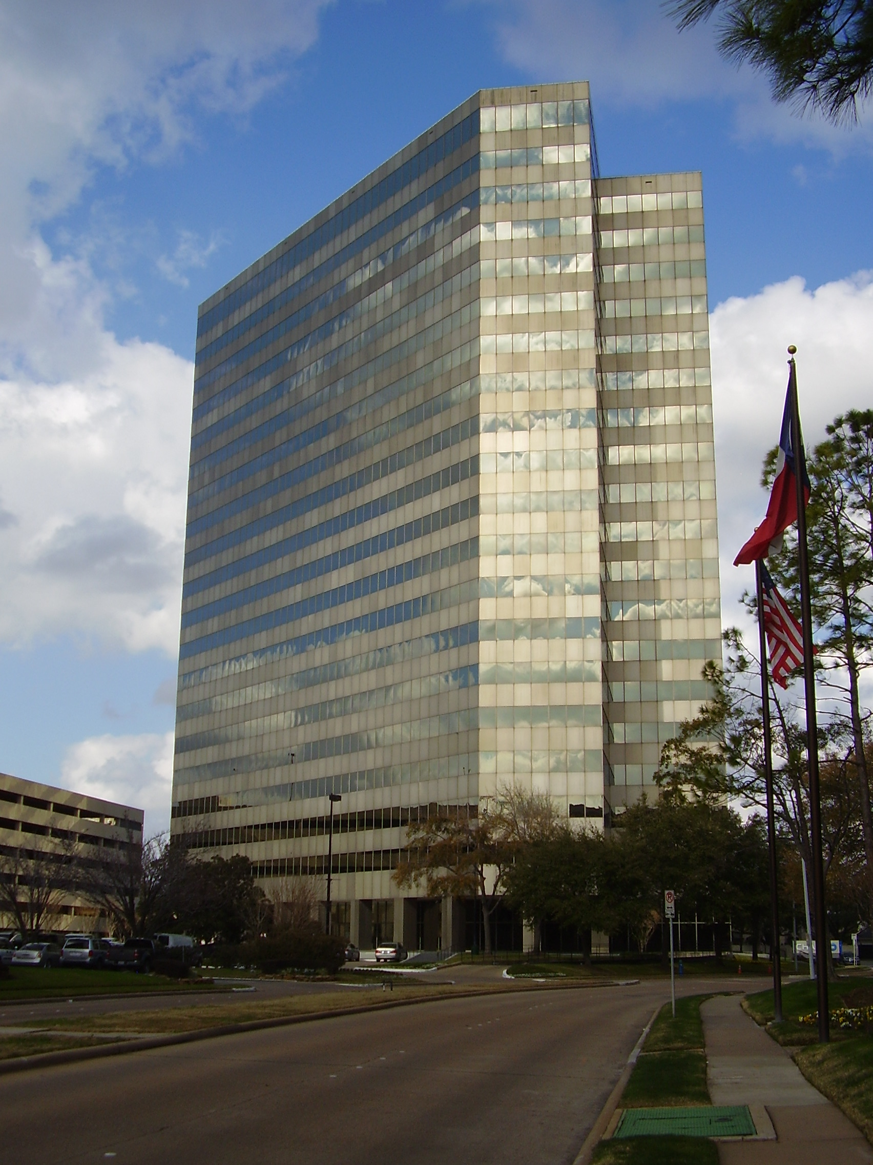 Schlumberger Solutions Center, the headquarters of Schlumberger